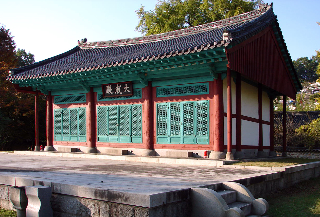 Daeseongjeon (shrine hall) - Jeonju Hyanggyo is a Confucian school that was established during the Joseon Dynasty (1392-1910) and was rebuilt at its present Jeonju site in 1603. There are a total of 99 rooms at the hyanggyo. The memorial enshrinement, Daeseongjeon, is in the front, while the lecture hall, Myeongyundang is in the rear. This style of building arrangement is very rare for a hyanggyo. Designated historical treasure No. 379.